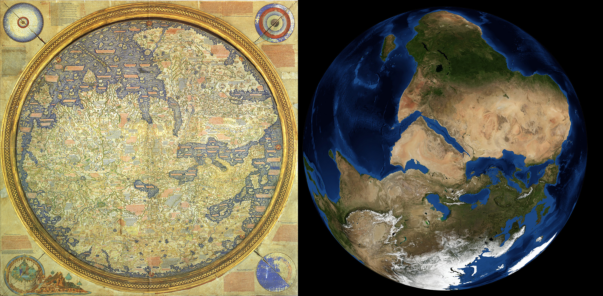 A comparison of the Frau Mauro World Map from AD 1450 and a satellite image of Earth, rotated to correspond to the map. The satellite image - the Blue Marble - was created using data from the MODIS instrument onboard the Terra and Aqua satellites.